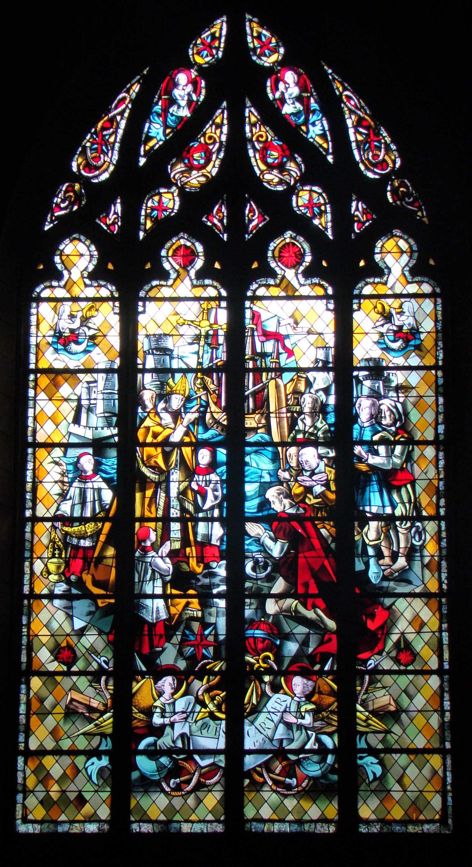 Saint Vincent cathedral - interior (Saint-Malo, France)